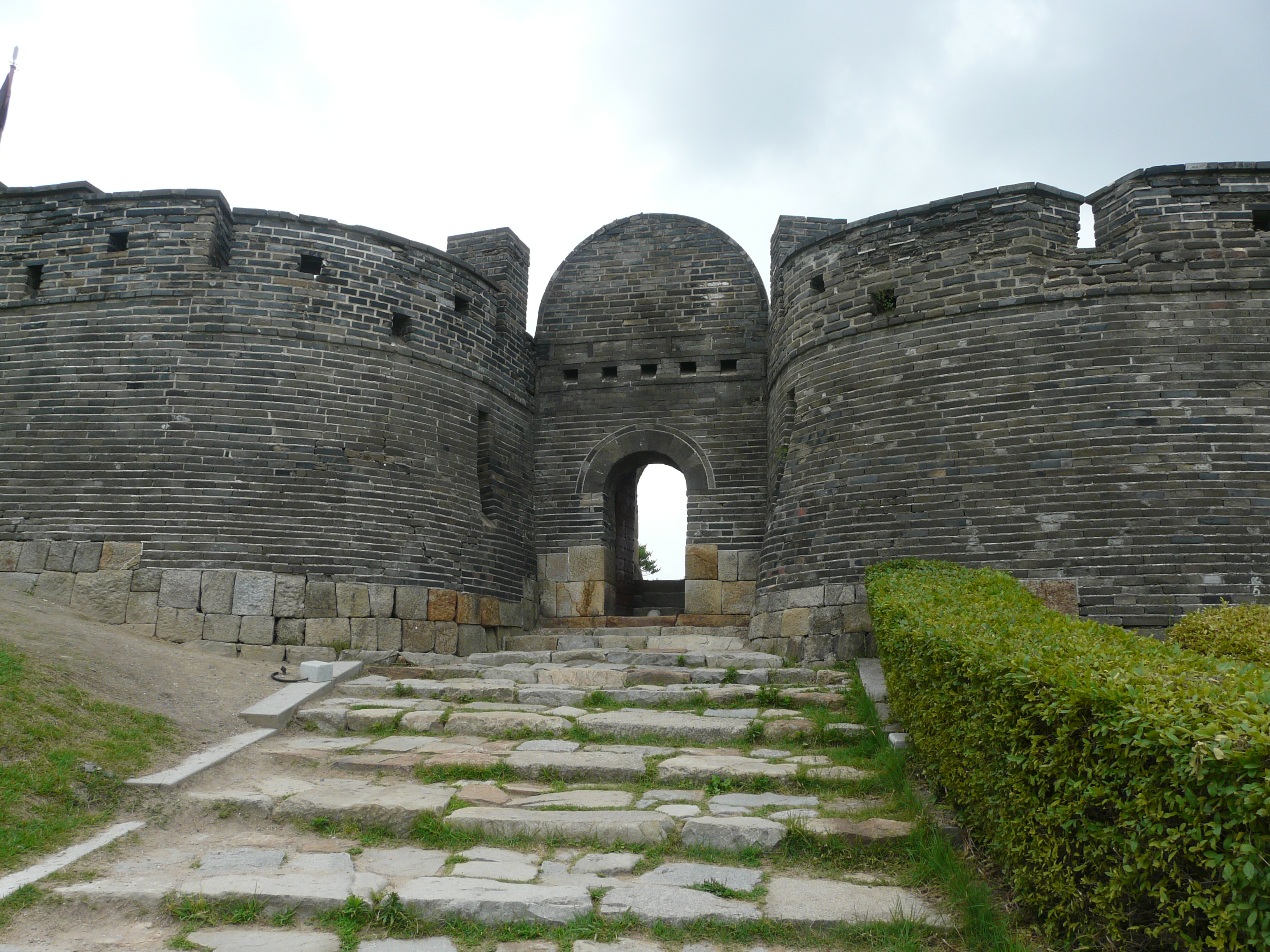 Walls of Hwaseong Fortress